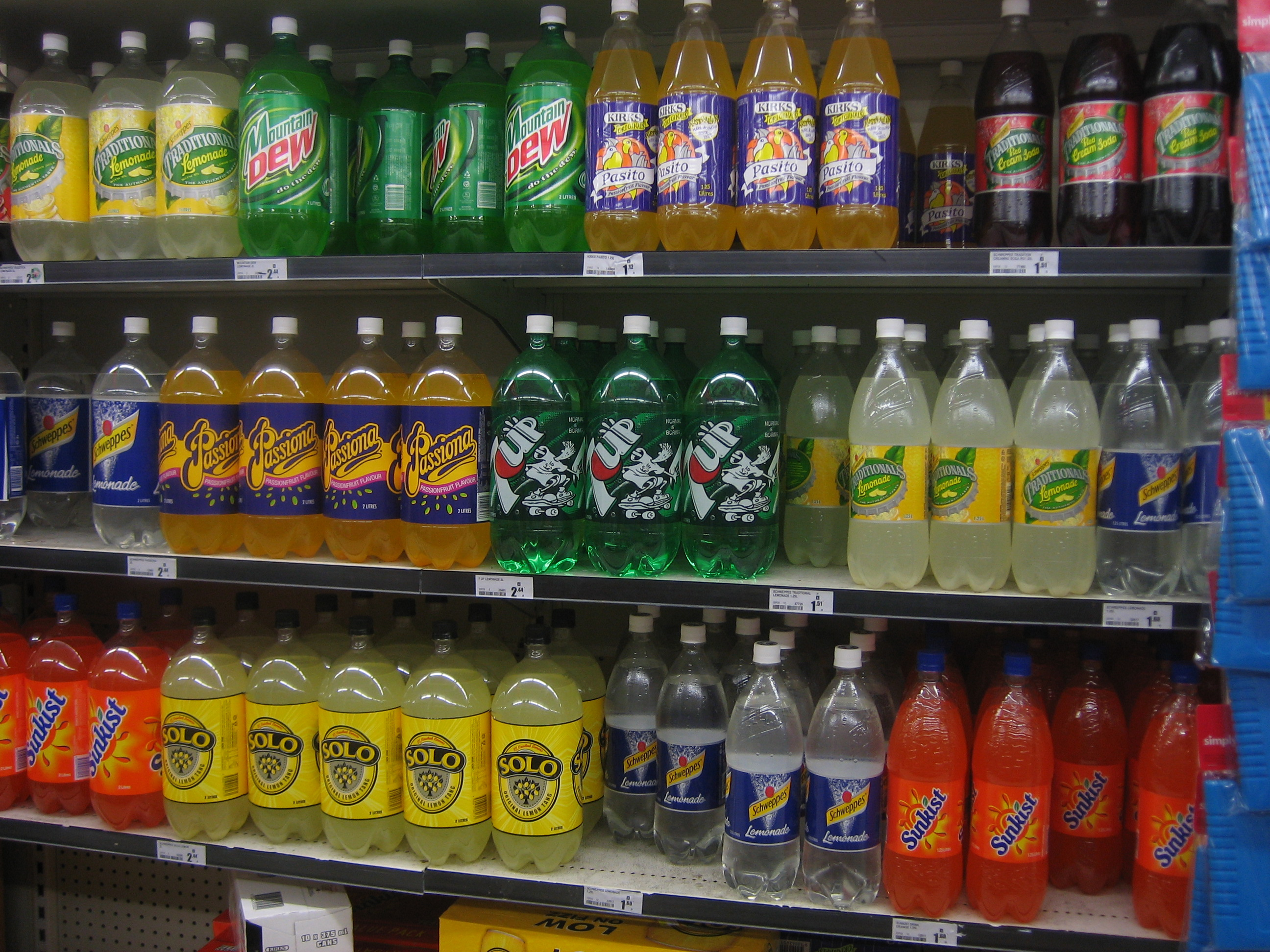 Soft drinks on shelves in a Woolworths supermarket (Australia). Taken by myself.